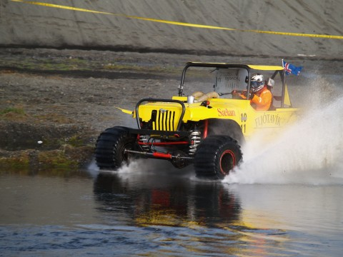 A formula offroad 4x4 truck driving on water at Hella in Iceland